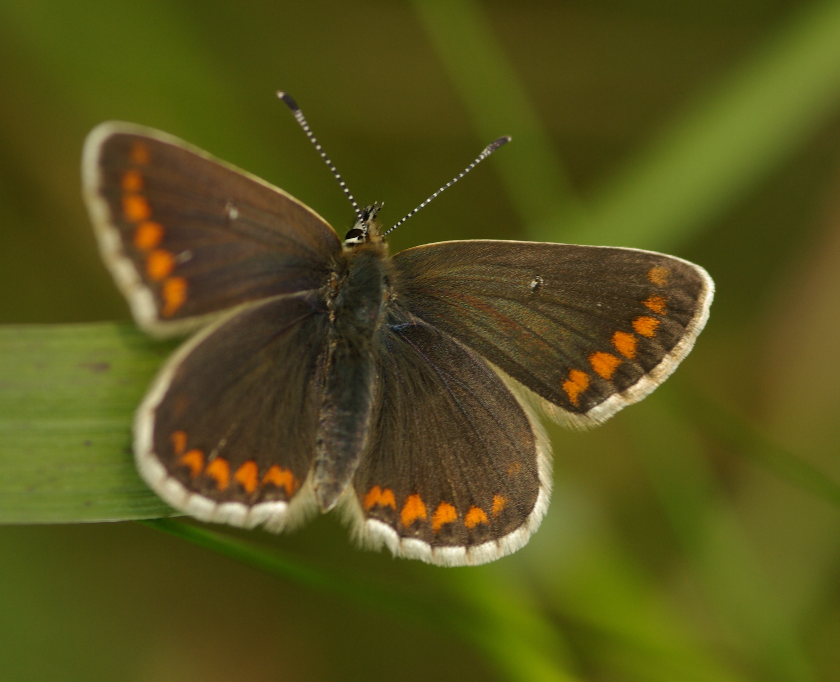 Northern Brown Argus - dorsal view - photographed in Bishop Middleham Quarry, Co. Durham